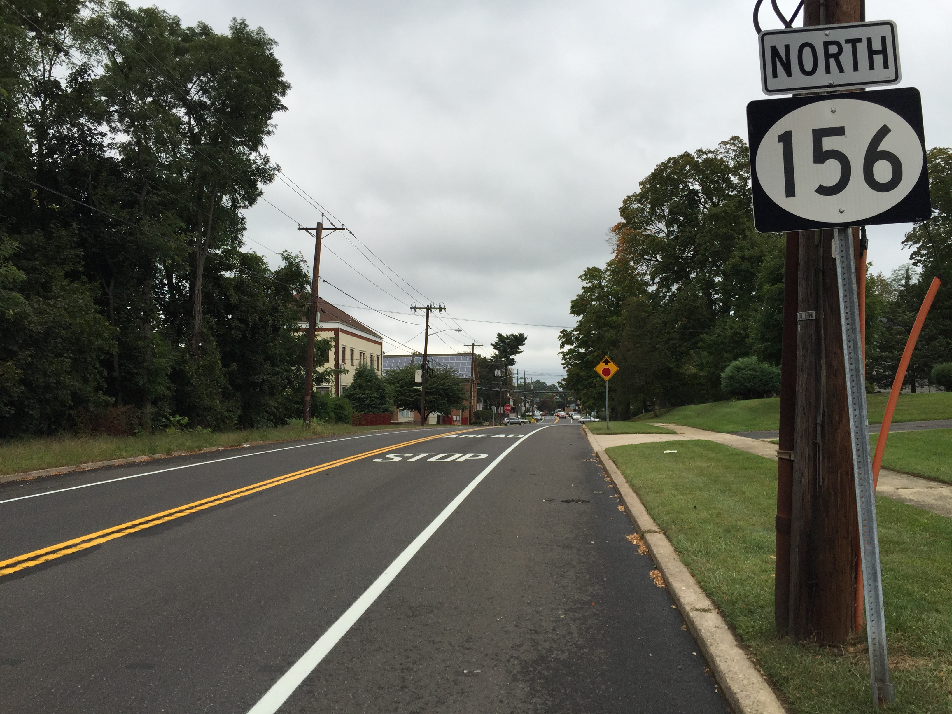 View north along New Jersey State Route 156 (Bordentown Road) at Church Street (Mercer County Route 609) in Hamilton Township, Mercer County, New Jersey